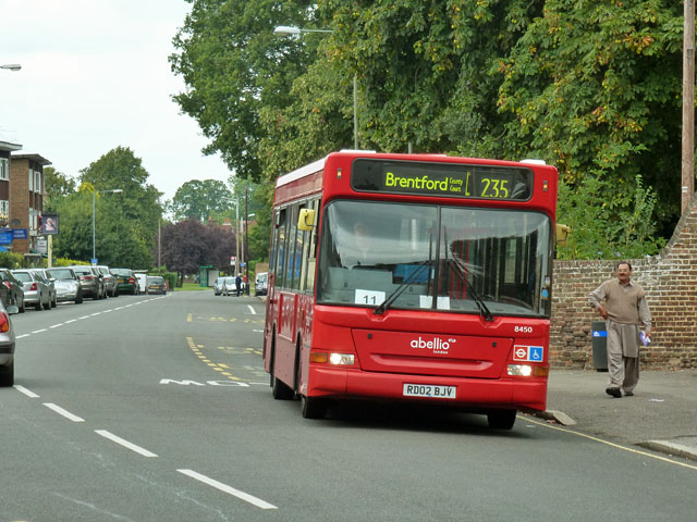 235 bus at Sunbury terminus. Abellio fleet number 8450 pulls away from the bus stand at the Three Fishes terminus. It will go round the Sunbury one way system to start its service back to Brentford at the Three Fishes stop on the other side of the road. This,... more